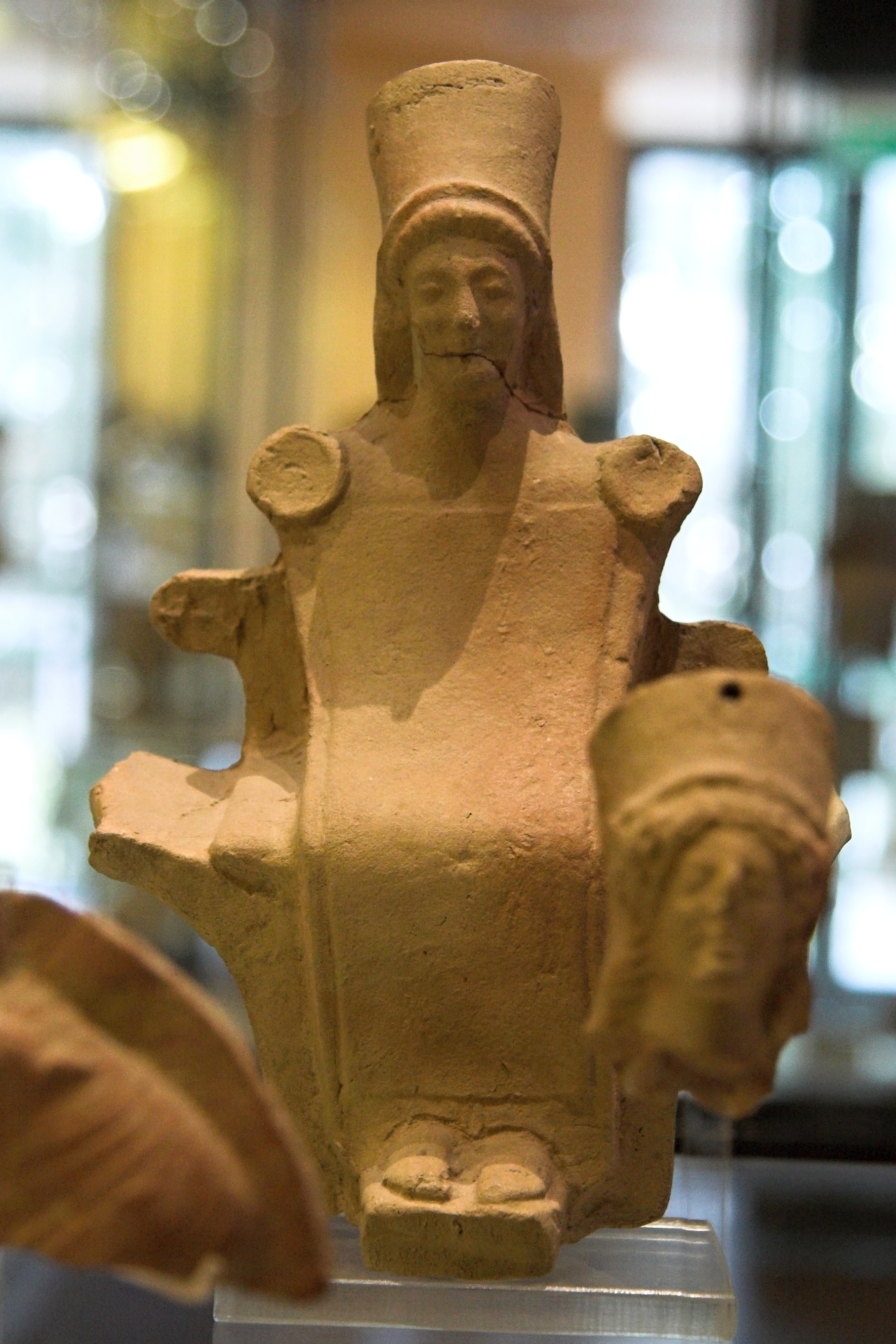 Enthroned goddess with polos, small terracotta, ca 520-500 BC. Archaeological Museum of Agrigento, AG 1161.